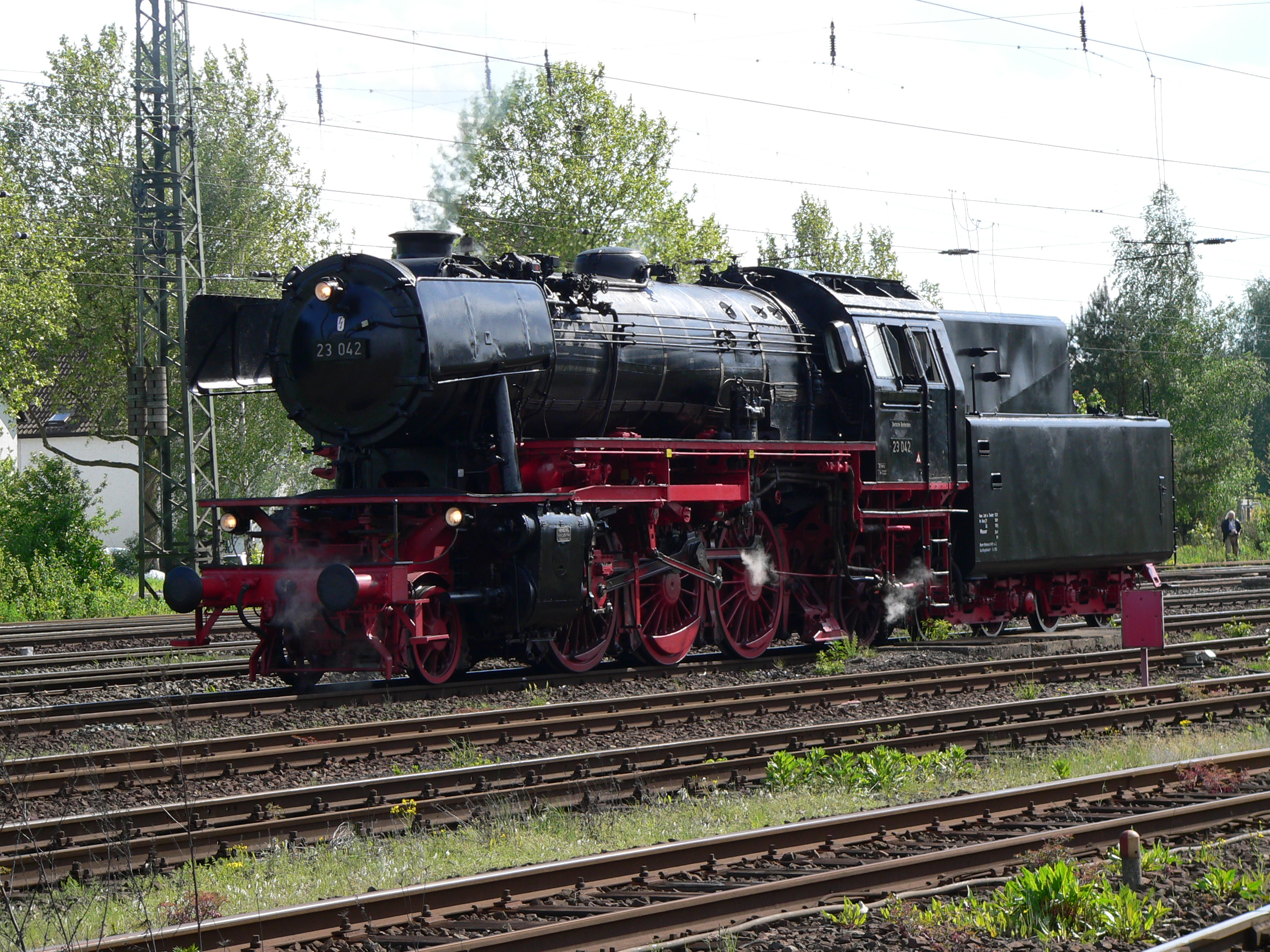 Steam locomotive 23 042 (German class 23) in Kranichstein, Germany